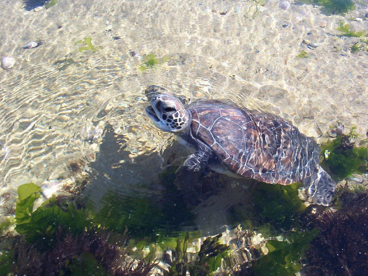 green turtle